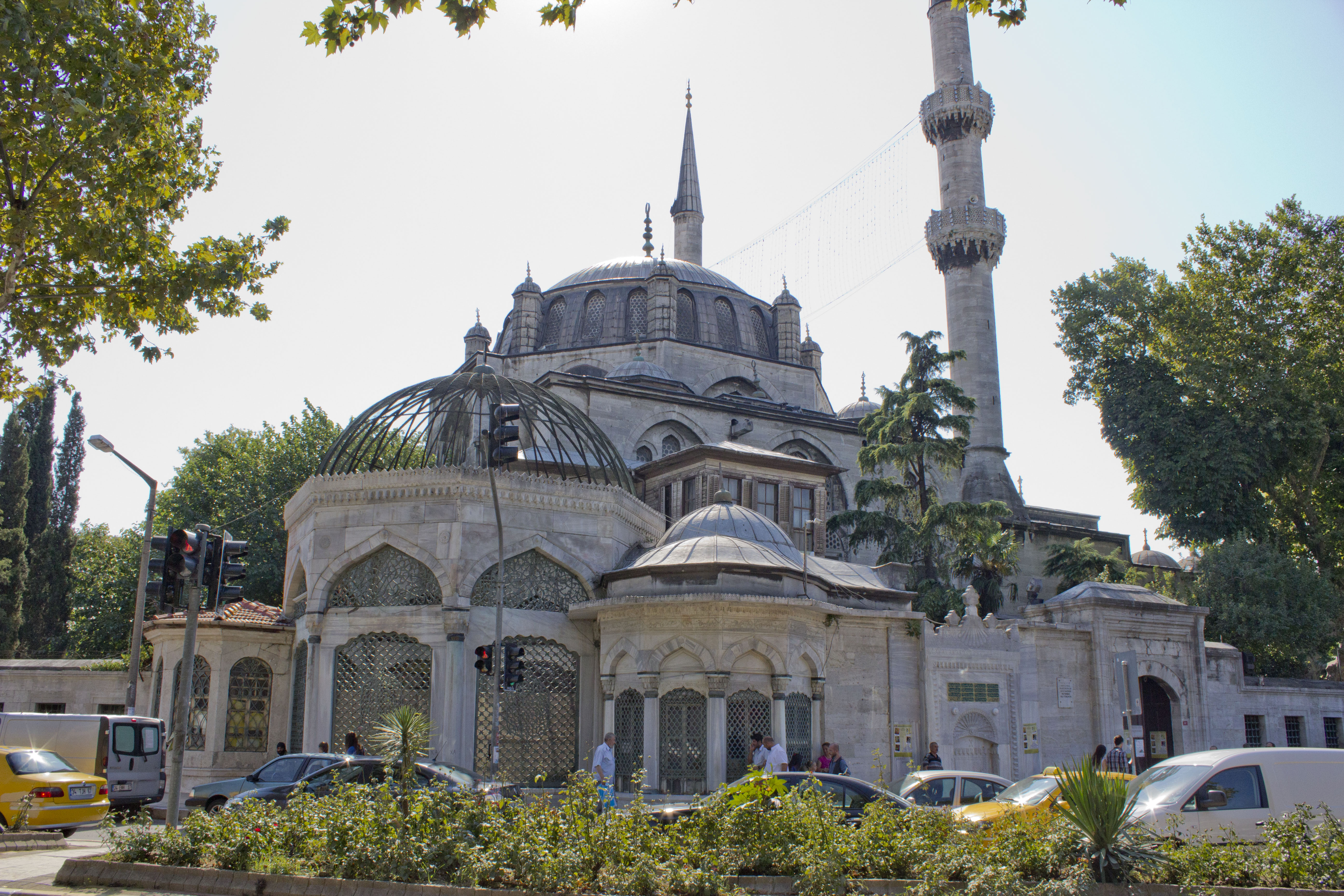 A view of the main mosque in Üsküdar, Istanbul